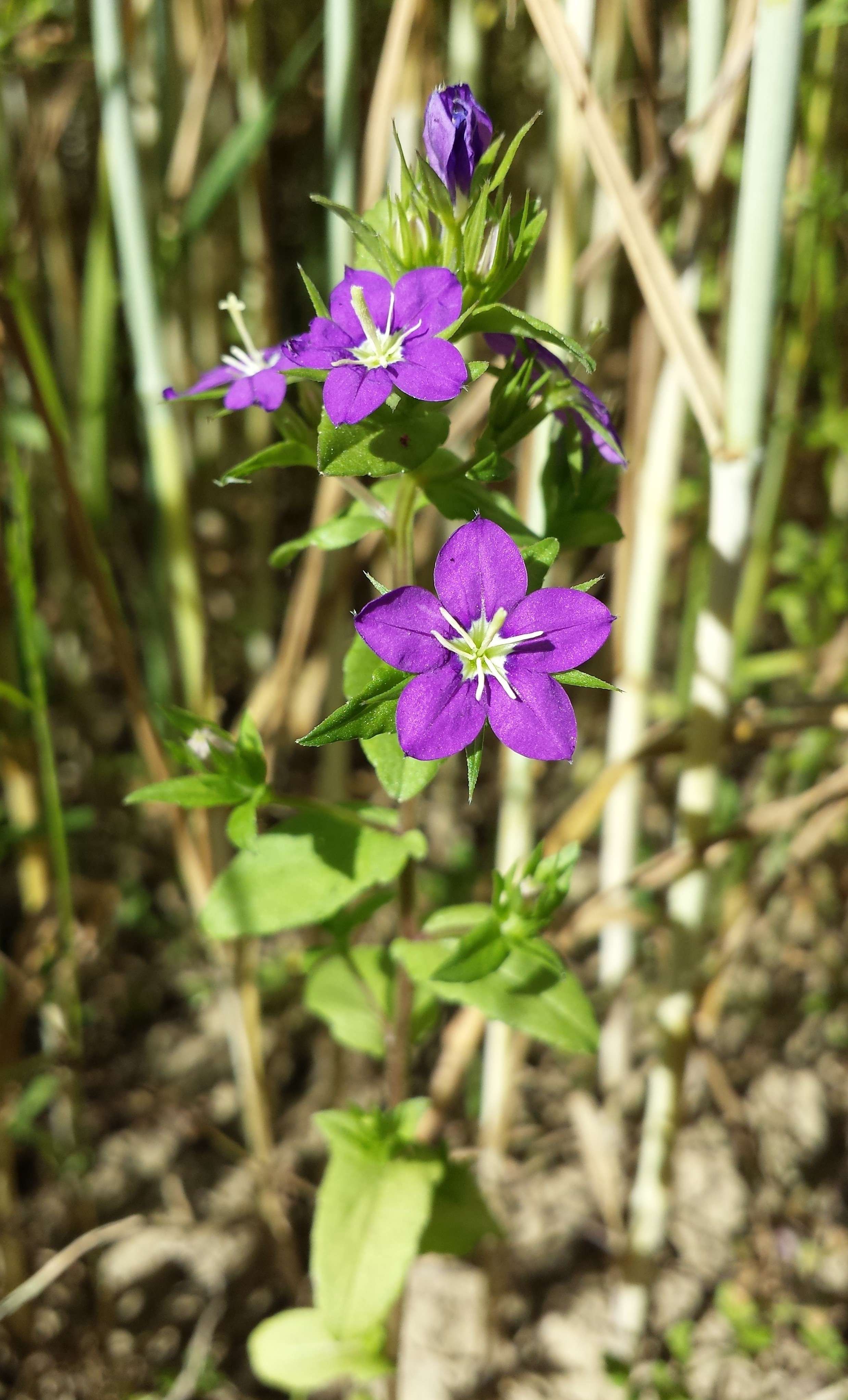 Florescence Taxon: Legousia speculum-veneris (sensu Fischer et al. EfÖLS 2008 ISBN 978-3-85474-187-9) Location: nearby Niederhollabrunn, district Korneuburg, Lower Austria - ca. 325 m a.s.l. Habitat: border of a loamy field